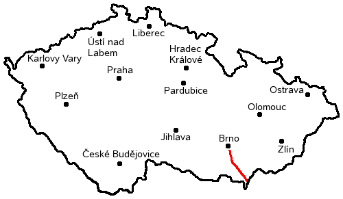 Route of the Czech Highway D2. Created by Petr Adamek in October 2005.